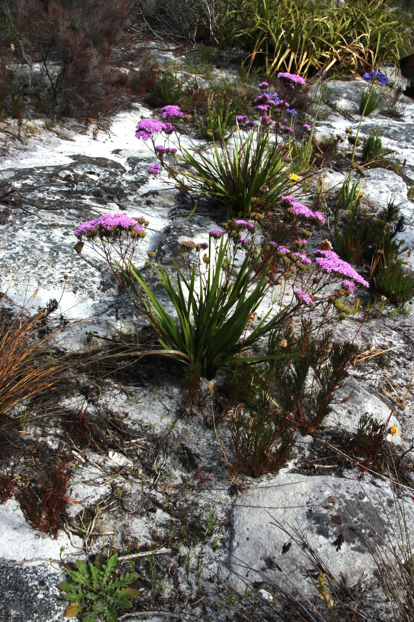 Two plants of Corymbium glabrum var. glabrum, photographed by Tony Rebelo, on 11 December 2015, at Silvermine east below duck pond: Silvermine east section of Table Mountain National Park, Simon's Town County, Western Cape province of South Africa